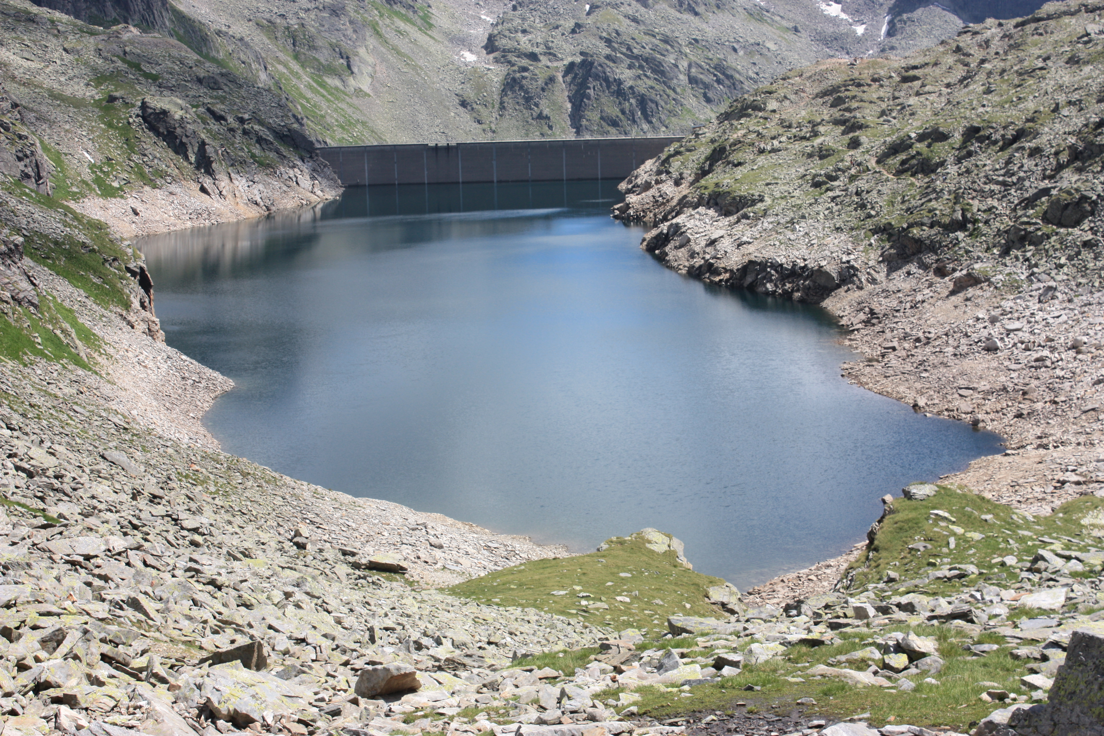 Kleiner Mühldorfer See: Lake (reservoir in the Reißeckgruppe (moutainsrange) in Carinthia